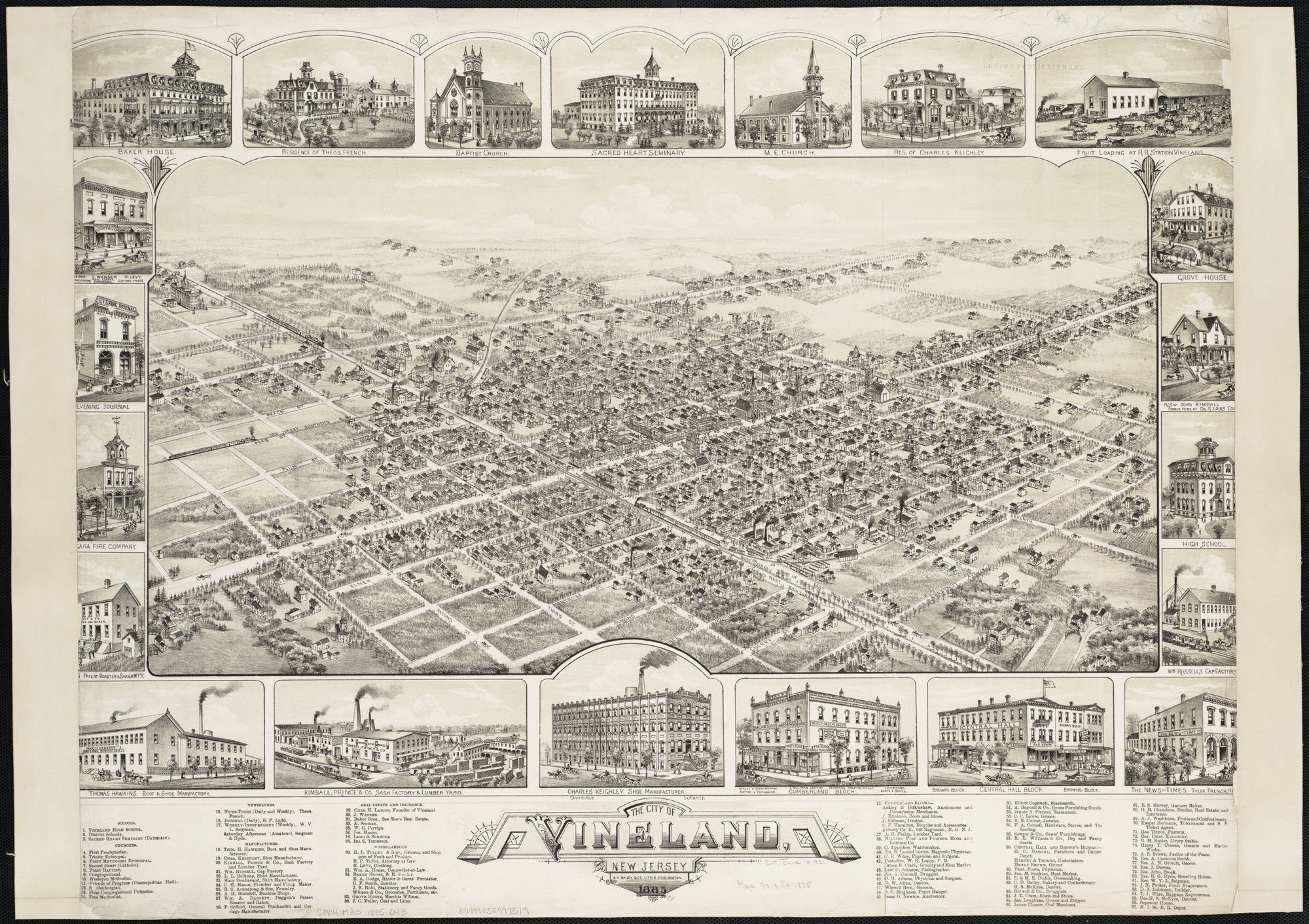 Zoom into this map at . Author: O.H. Bailey & Co. Publisher: O.H. Bailey & Co. Date: [1885] Location: Vineland (N.J.) Scale: Not drawn to scale. Call Number: G3814.V7A3 1885.O43